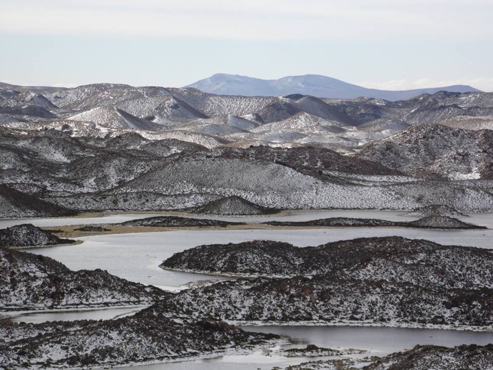 this is a beautiful place located in the north of Chile, is more than four thousand feet high.